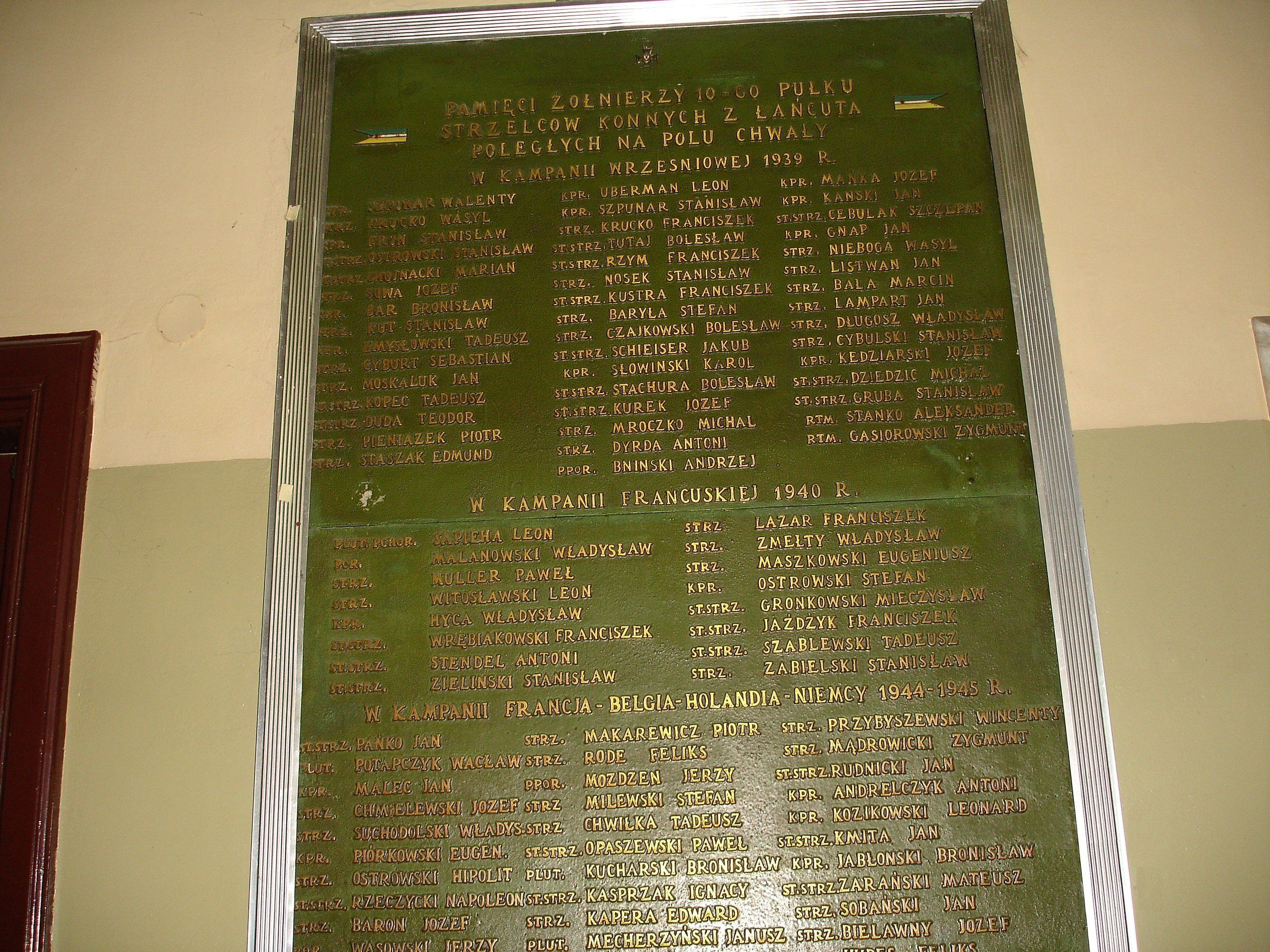 The plate commamorating soldiers of the 10th Mounted Rifle Regiment killed during WW II, placed in the parish church in Łańcut.